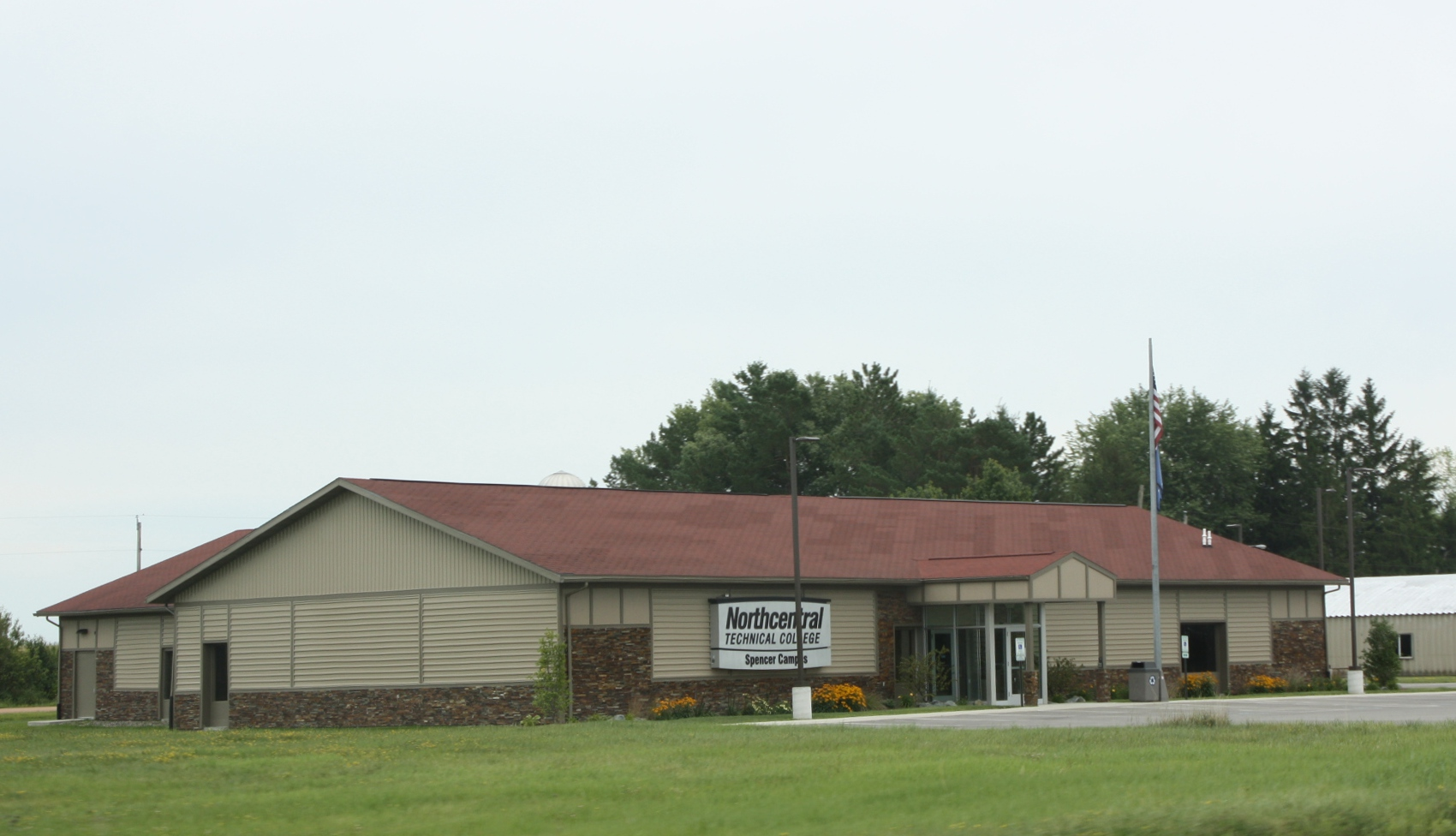 Looking east at the regional center of Northcentral Wisconsin Technical College on in Spencer, Wisconsin on Wisconsin Highway 13.